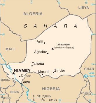 Map of Niger, showing major cities.